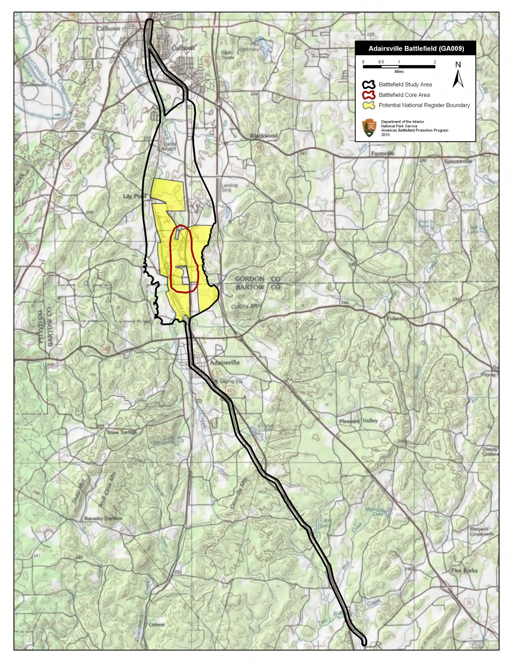 Map of battlefield core and study areas. The ABPP made significant changes to the 1993 Study Area. The area south of the town of Calhoun where Federal forces deployed for battle was added. The eastern and western edges of the Study Area were redrawn to conform to the width of the valley, which was too wide for Johnston to effectively cover. The untenable topography dictated a military withdrawal, which Johnston executed. The Confederate army moved to Cassville; the Federals pursued.